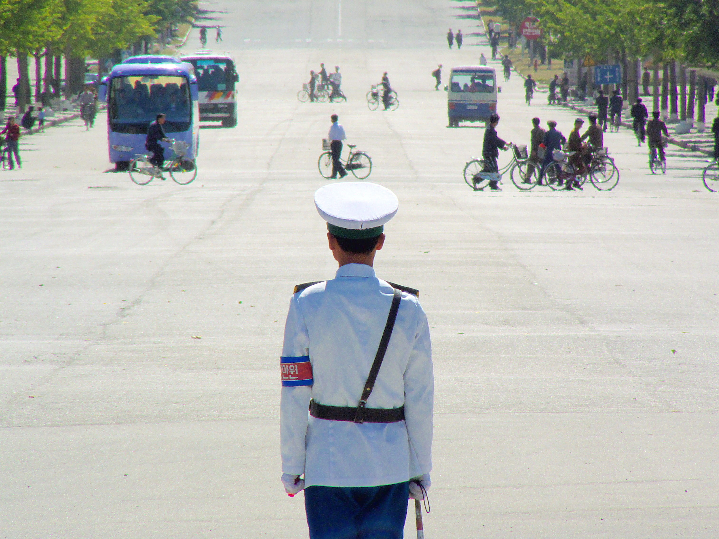 Traffic controllers like the one pictured are a common sight in the major cities. Due to the fuel shortage in the country, it is actually easier to have someone to direct the traffic all day than it is to power traffic lights. Our local guide claims the choice of traffic controllers over traffic lights is to reduce pollution. Right.